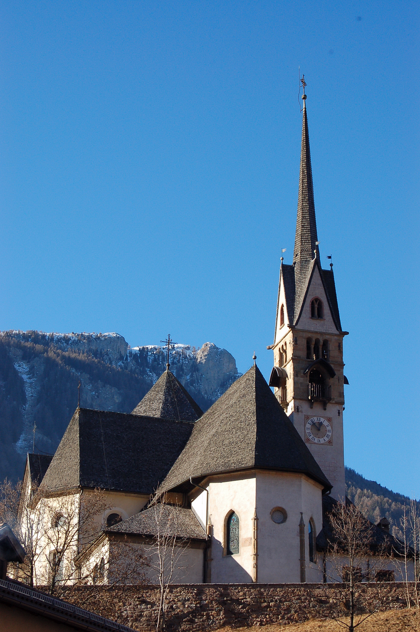 Church of Moena